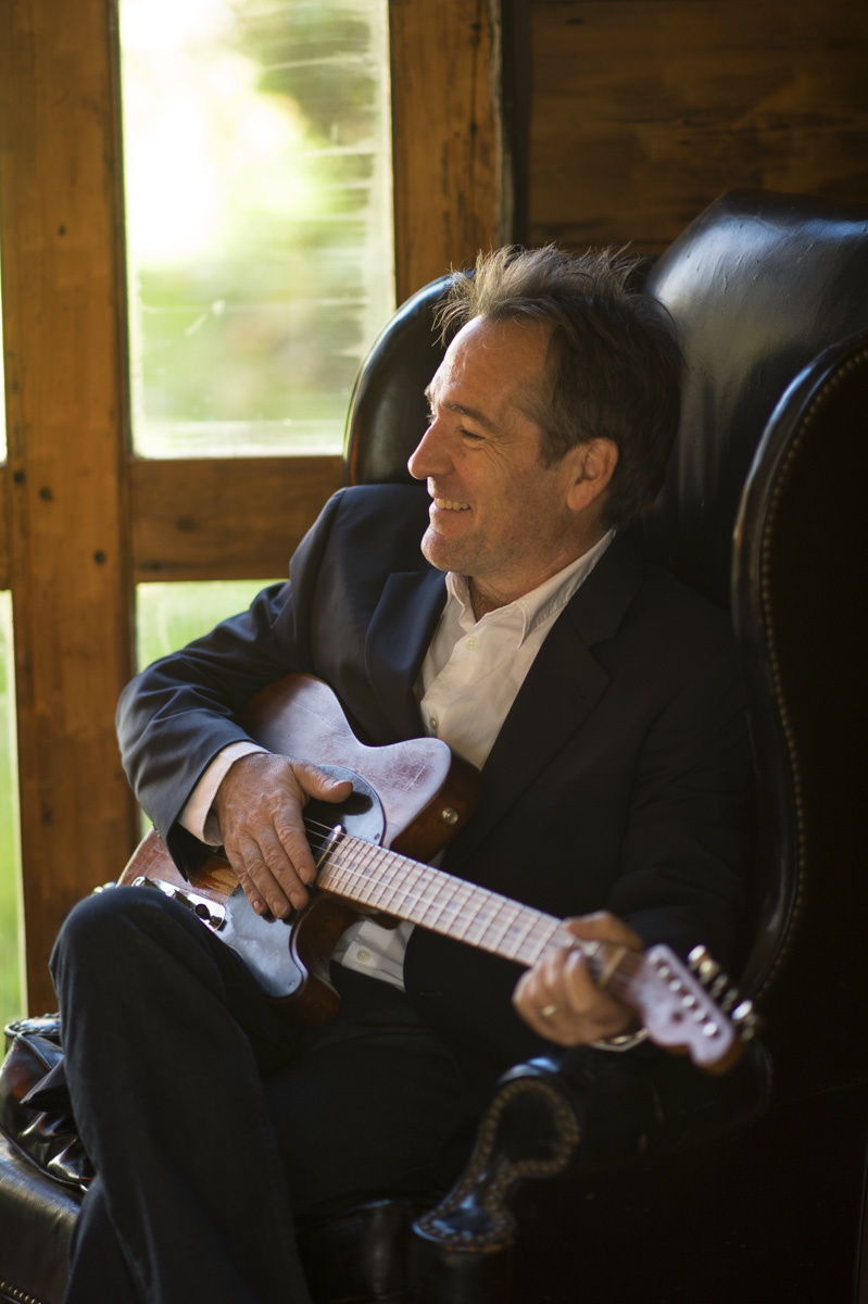 Richard Shindell in upstate New York.